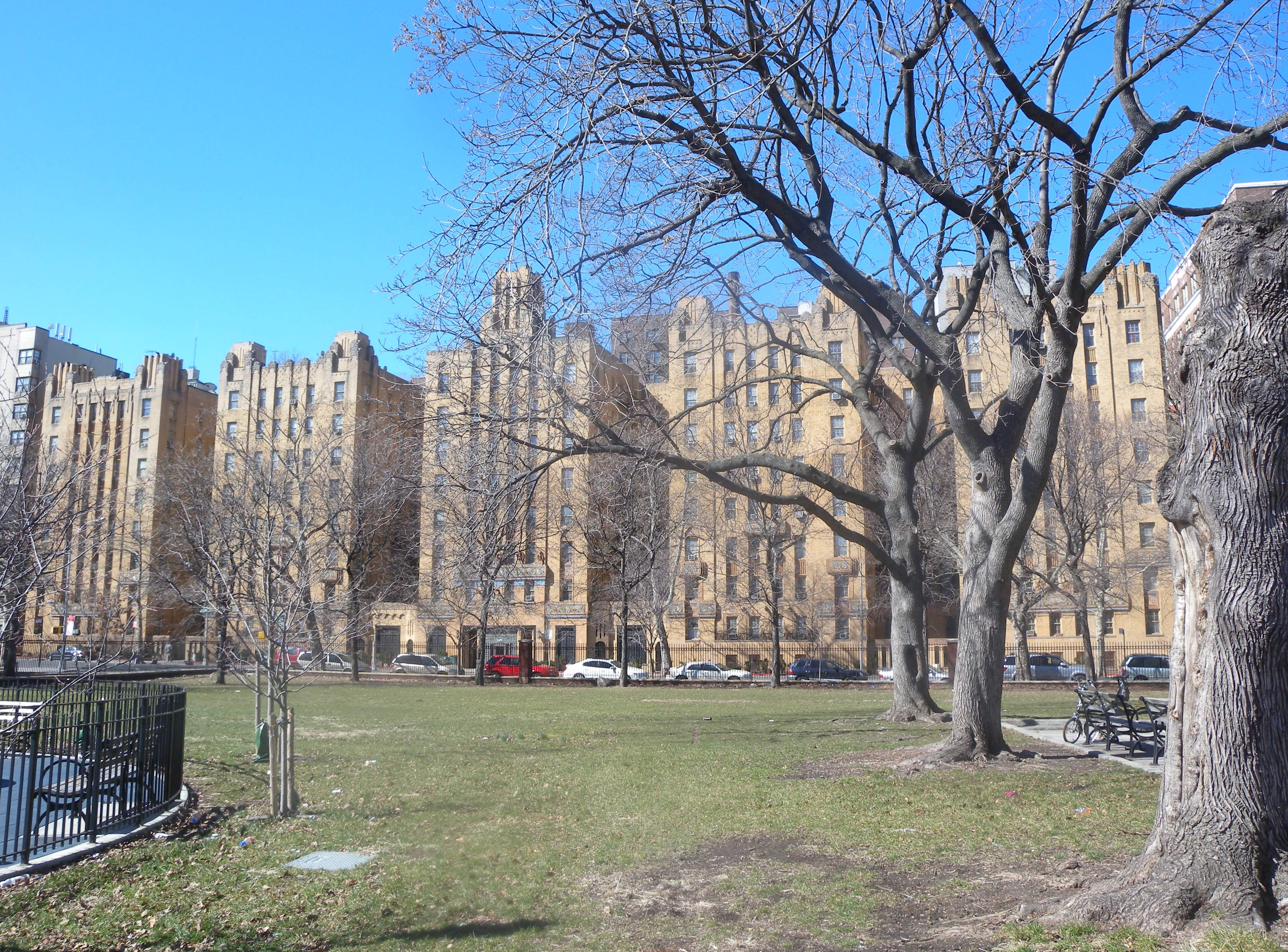 Looking west from the middle of the park at Park Plaza Apartments (New York) on a sunny midday.